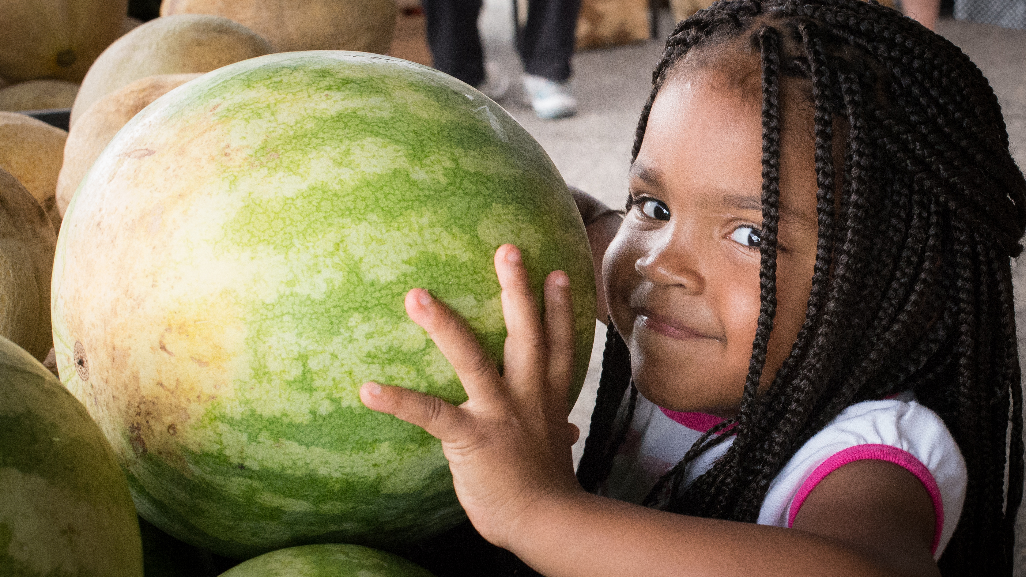 Liah Montgomery (3) helps pick and deliver personal sized watermelon for the U.S. Department of Agriculture (USDA) Farmers Market's VegU recipe demonstration of a Watermelon, Cucumber, and Basil Salad on Friday, July 15, 2016, in Washington, D.C. USDA Photo by Lance Cheung. Yields 4 to 6 servings Prep Time: 15 minutes | Cook Time: 0 minutes | Total Time: 15 minutes 6 cups watermelon 1 cup cucumber 2 tbsp red onion 1 tbsp red wine vinegar 2 tsp olive oil 2 tbsp basil leaves salt and pepper, to taste 1. Scrub outside of watermelon and let dry. Cut the fruit flesh into 2-inch cubes. 2. Wash and dice cucumber. Peel and finely dice onion. Chop basil. 3. Toss watermelon, cucumber, onion, and basil with vinegar and oil. Add salt and pepper to taste. Serve immediately or cover and refrigerate until ready to serve. Leftovers will keep 1 to 2 days and become quite juicy. • The Cucurbitaceae is an important food plant family and includes cucumber, gherkins, melons, gourds, marrows, squashes, and pumpkins. The fruit, which is botanically called a ‘pepo’ is used as a vegetable or dessert, but other parts of the plant (young leaves, shoots, seeds, and root) may also be consumed as food. The fruit contains a large amount of water and a reasonable amount of vitamin C. Cucurbits are usually climbing plants. • The classification of melons (Cucumis melo) is based on fruit characteristics (surface and flesh) but, because of hybridization, it is not always easy to distinguish between the groups. There are three main cultivar groups of melon: (1) musk melons are distinctly netted, with a raised network on the surface of the skin generally lighter than the overall color of the fruit such as ‘Galia’ melons; (2) cantaloupe melons have a warty or scaly skin but are not netted; (3) winter melons are either smooth or shallowly corrugated but not netted like the popular ‘Honey Dew’ melons. • The scientific name for watermelon is Citrullus lanatus. USDA Photo by Lance Cheung.